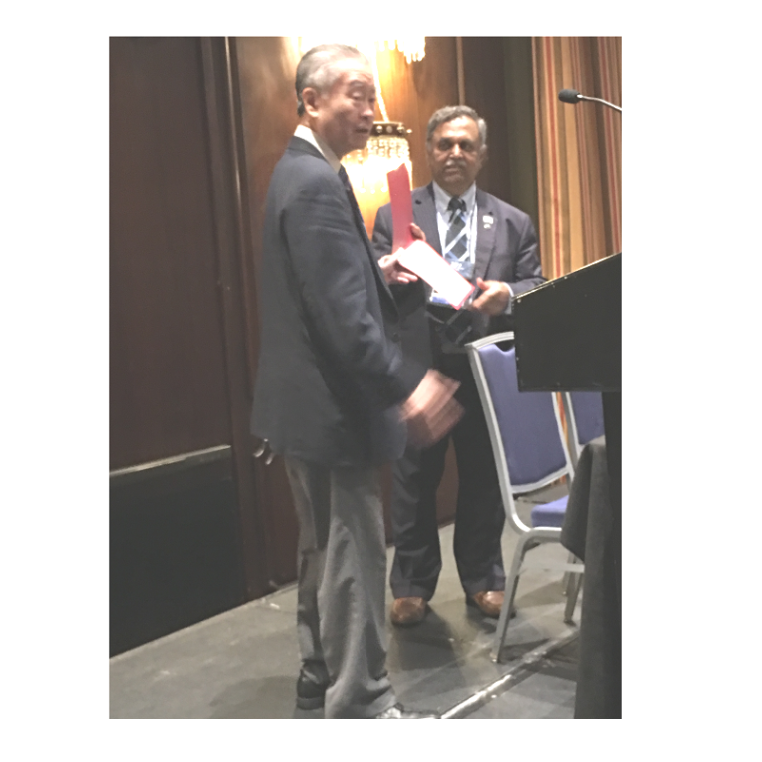 This award is presented by President of IEEE on BI excellence for last 25 years